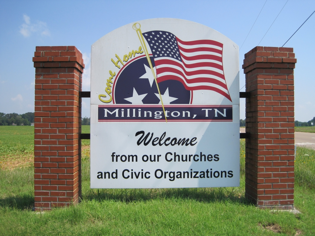 Millington, Tennessee. Welcome sign at Singleton Parkway